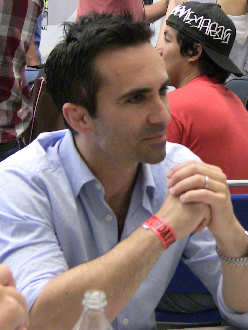 Nestor Carbonell